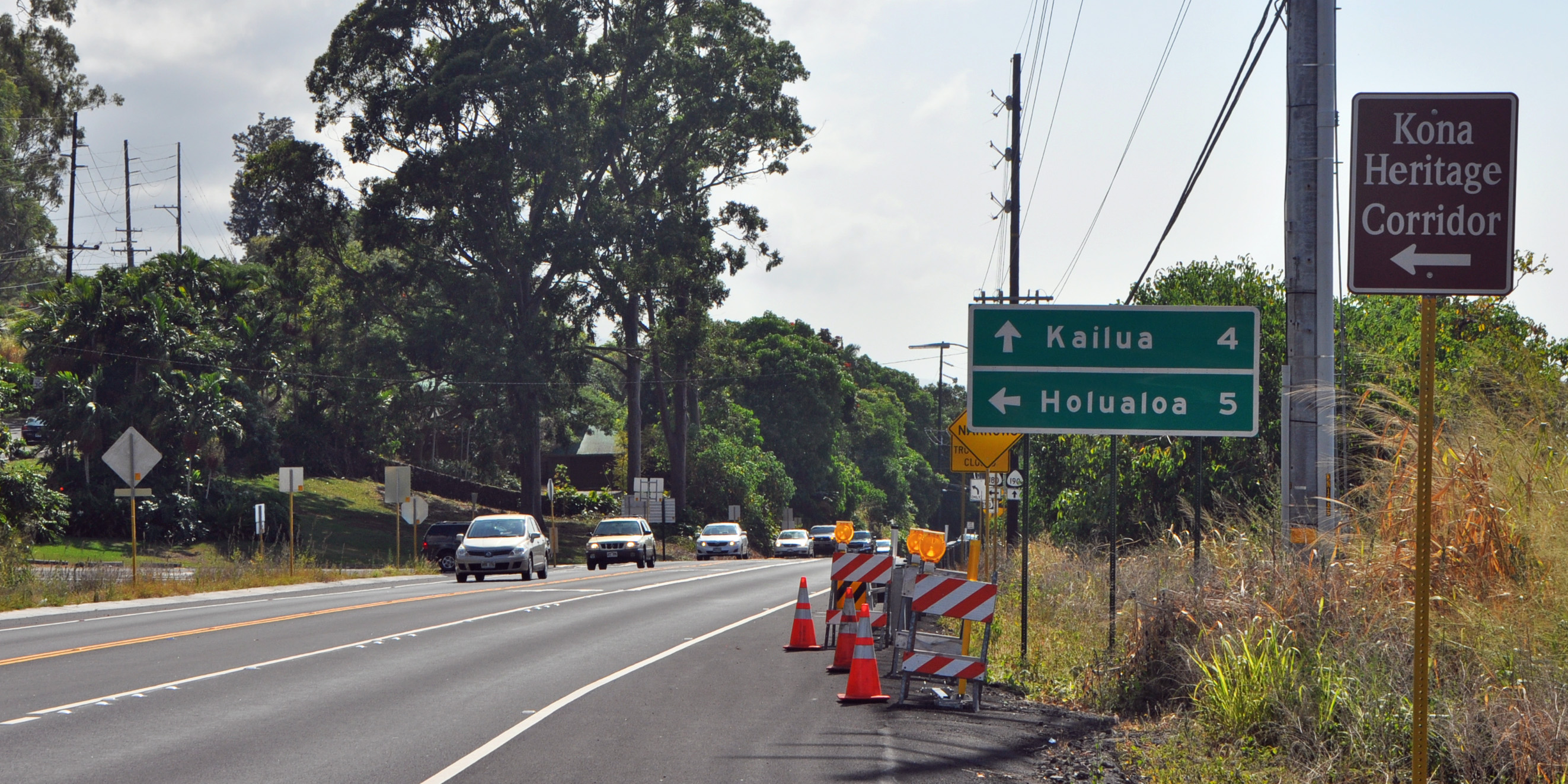 Hawaii Route 190 sign showing Route 180, Kailua Kona, HI, USA